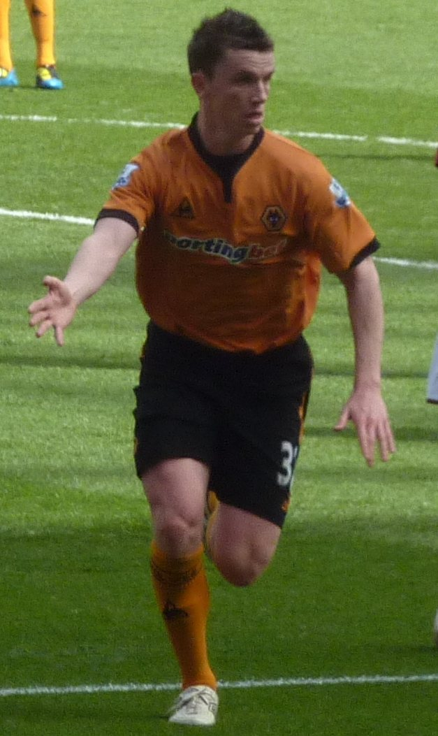 Kevin Foley, cropped from Arsenal vs Wolves